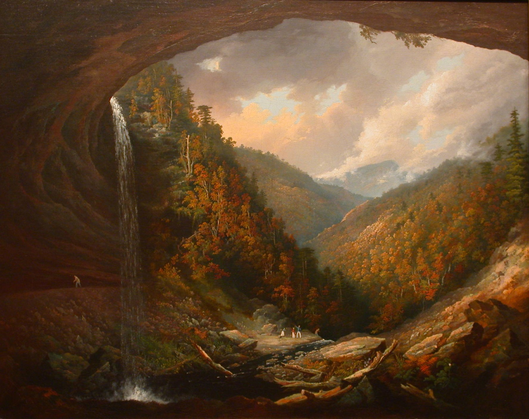 Cauterskill Falls on the Catskill Mountains, Taken from under the Cavern, oil on canvas painting by William Guy Wall, 1826-27 Honolulu Museum of Art Native nameHonolulu Museum of ArtLocationHonolulu, USACoordinates21° 18′ 14″ N, 157° 50′ 54″ W Established1922Web page control : Q128316 VIAF: 818145858110423022196 ISNI: 0000 0004 4661 5836 LCCN: n2013015284 NRHP: 72000415 GND: 1063109698 WorldCat institution QS:P195,Q128316 accession 3583.1